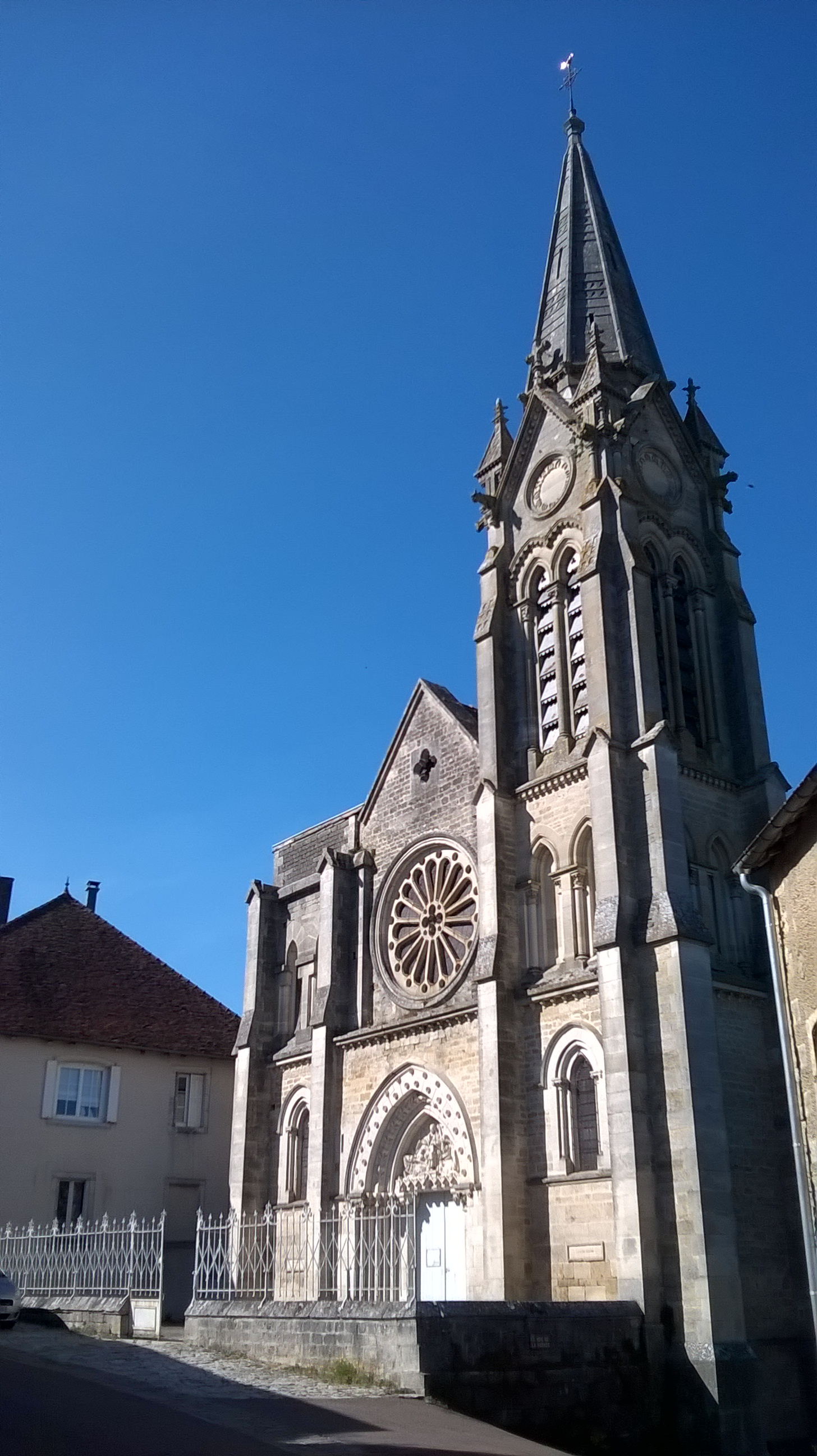 2nd (low side) church of Bourmont, Haute-Marne, France.